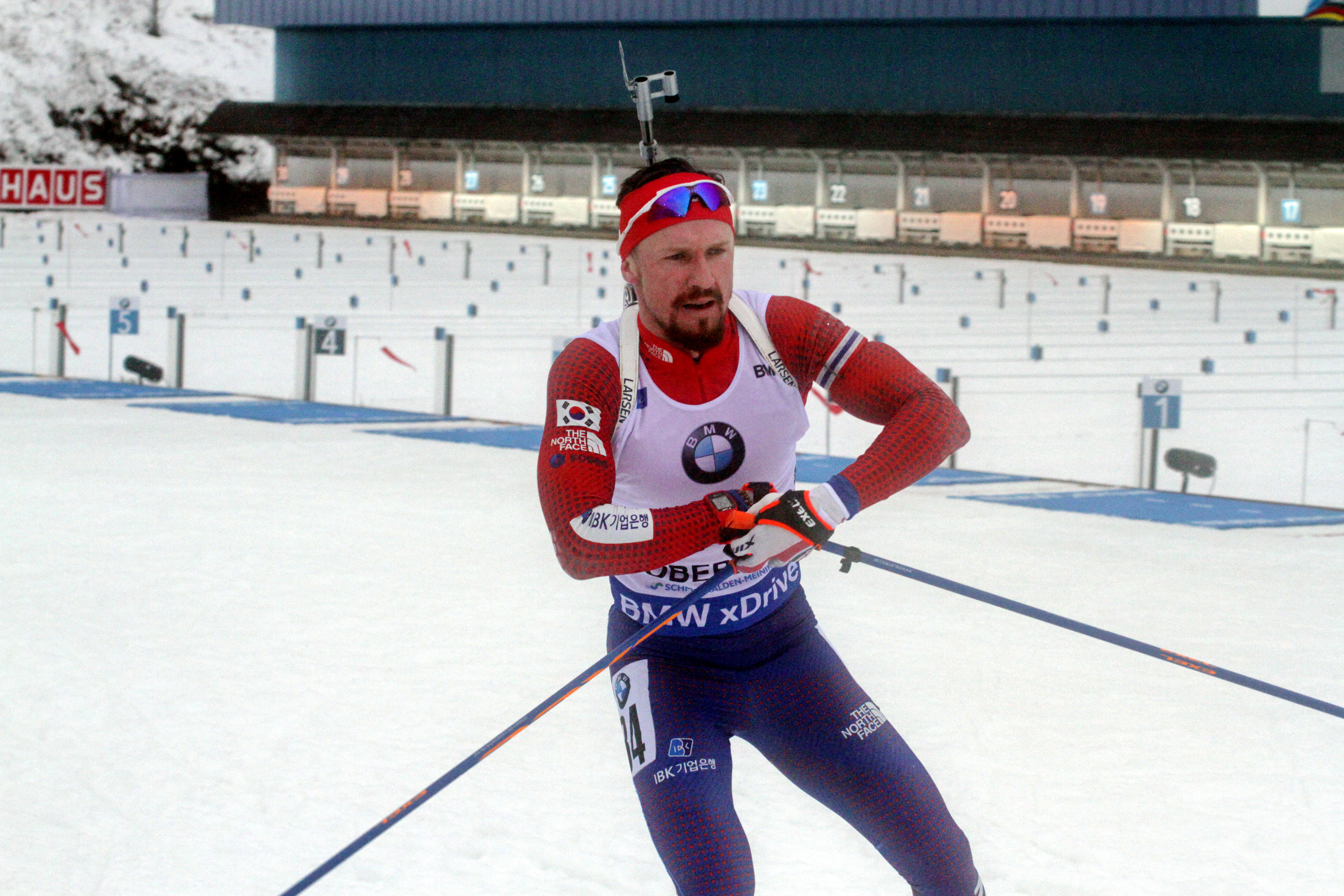 2018 Oberhof Biathlon World Cup - Sprint Men